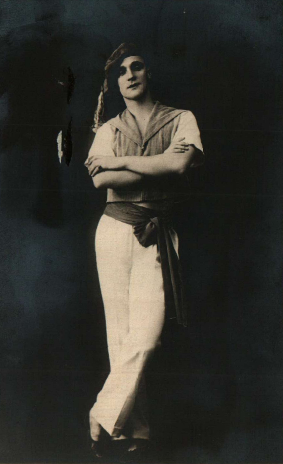 Bulgarian ballet dancer Anastas Petrov (1899-1978).